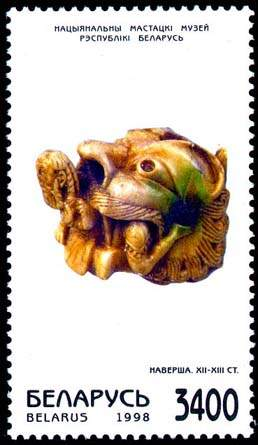 Stamp of Belarus